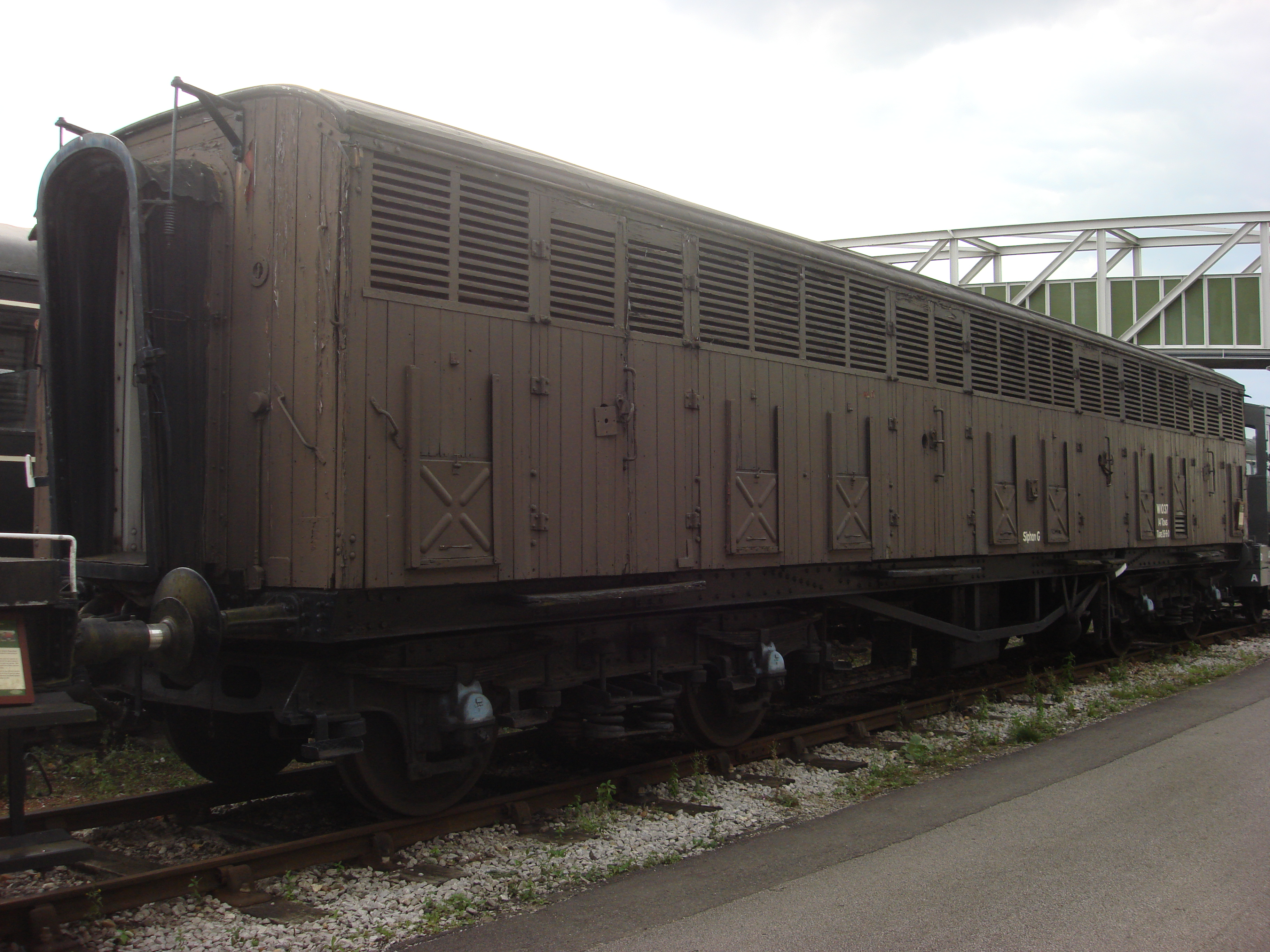 BR 'Siphon G' No. W1037, built in 1955 to a GWR design